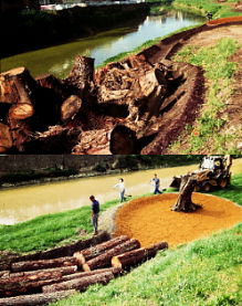 Family Tree/ Death 1997